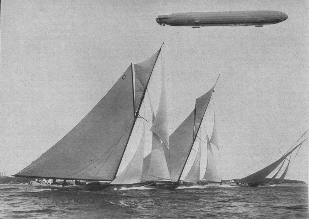 The IYRU 19mR Octavia at the Kiel Week in 1913, with LZ 13 Hansa.